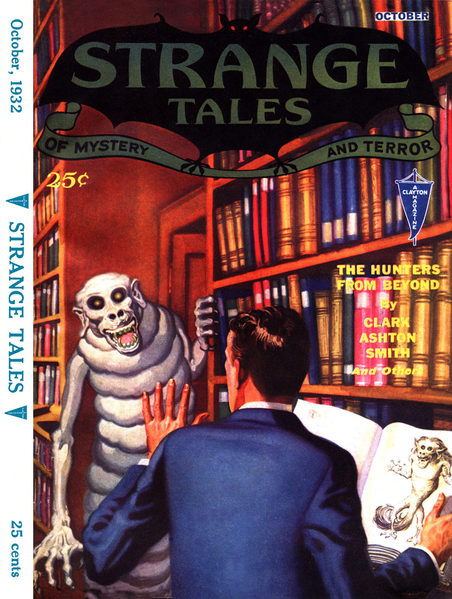 Strange Tales cover, October 1932